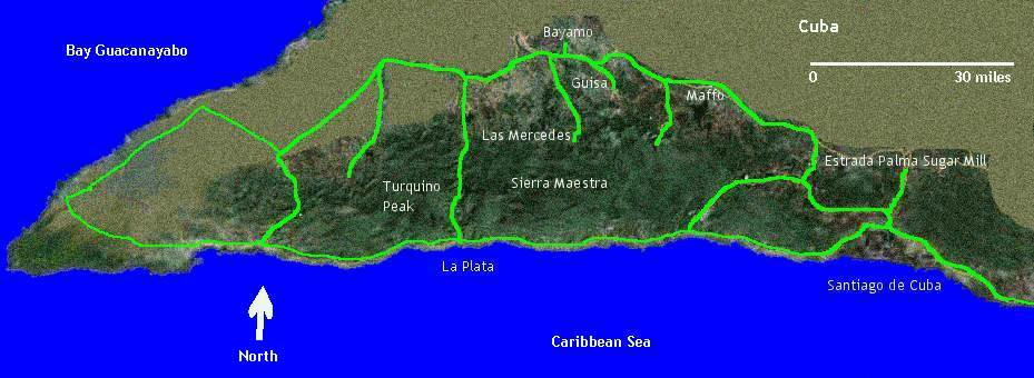 I created this map showing the key locations in the Sierra Maestra mountains and surrounding locations of the Cuban revolution (1958).